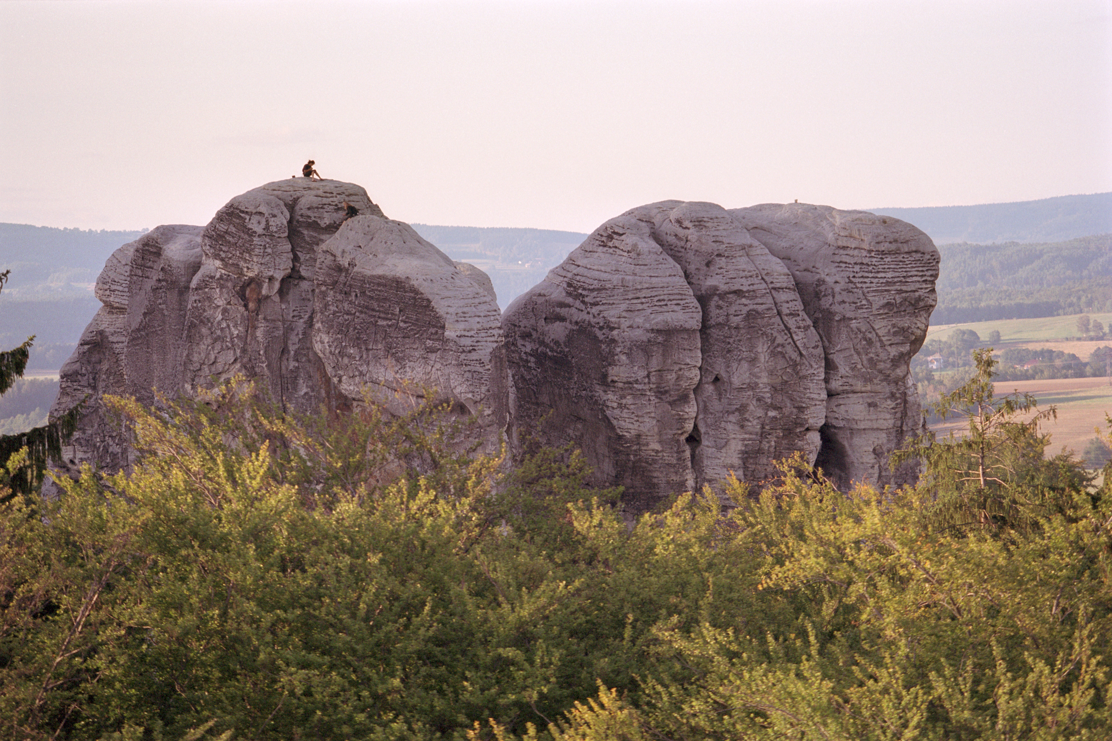 (Unidentified sandstone formation), Hrubá Skála Rocks, Český ráj (Bohemian Paradise), the Czech Republic